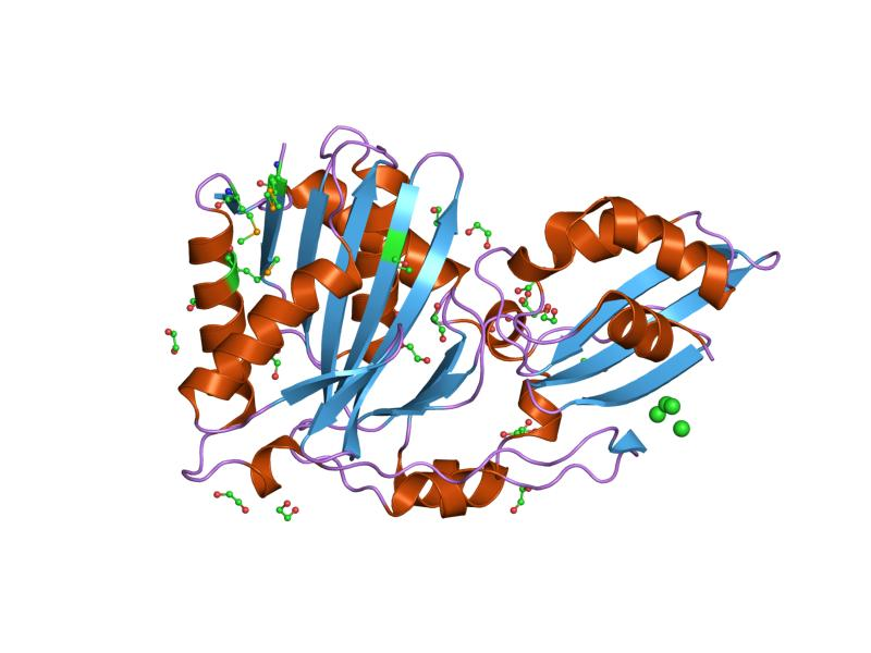 Cartoon representation of the molecular structure of protein registered with 1vqz code.